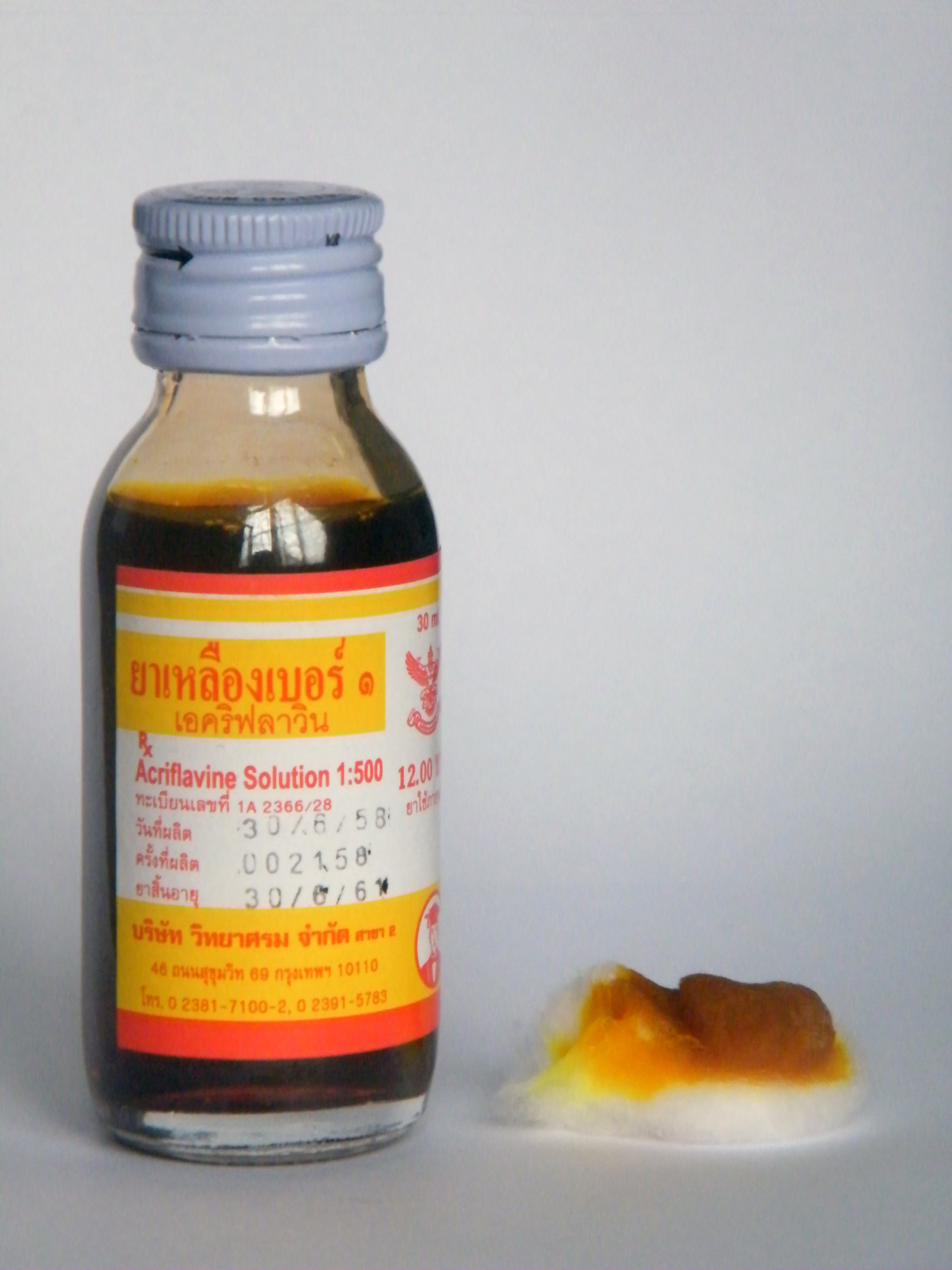 Left: Bottled 30 ml 0.2% Acriflavine solution for skin application, manufactured by Vidhyasom Co., Ltd. Right: A cotton ball soaked with the solution (showing its color).